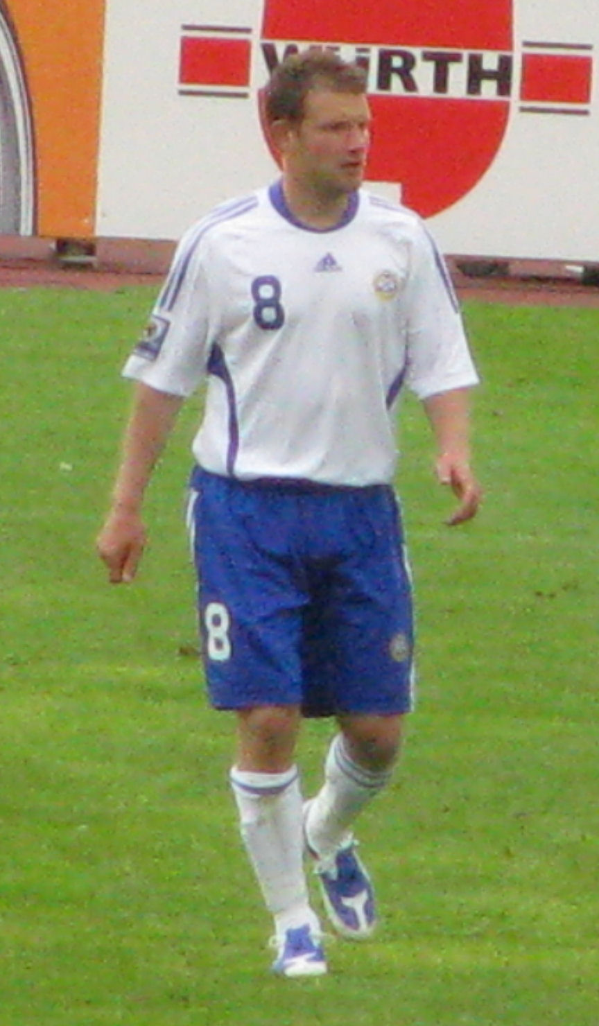 Teemu Tainio of Finland.